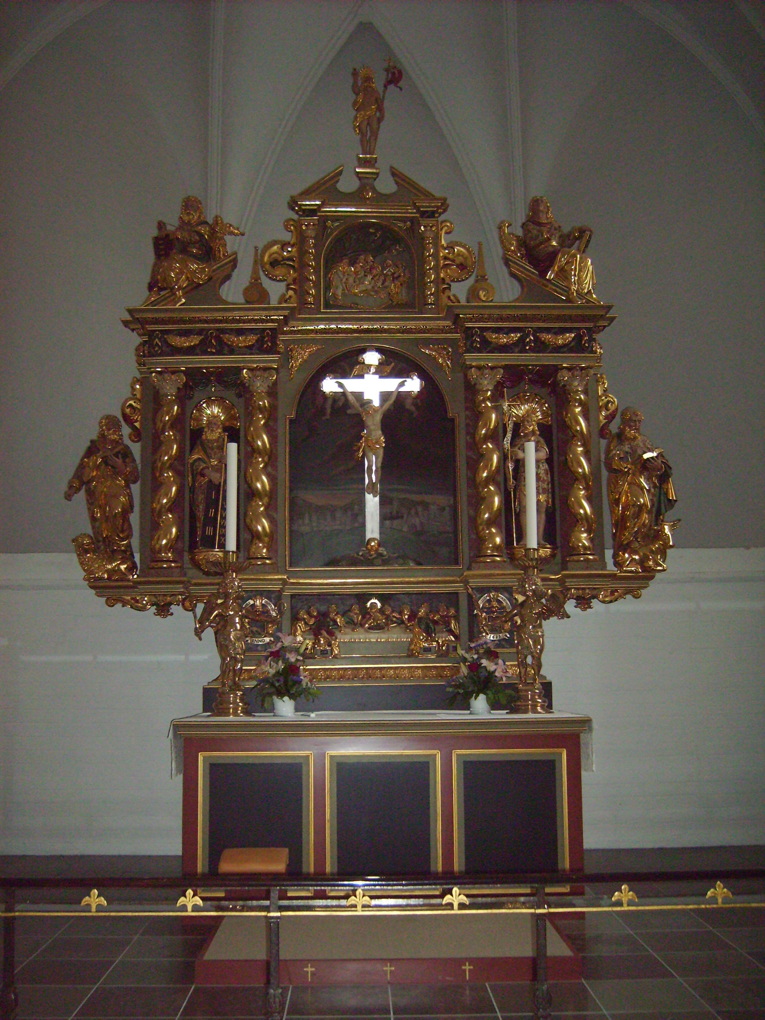 Budolfi Church in Aalborg, Denmark.